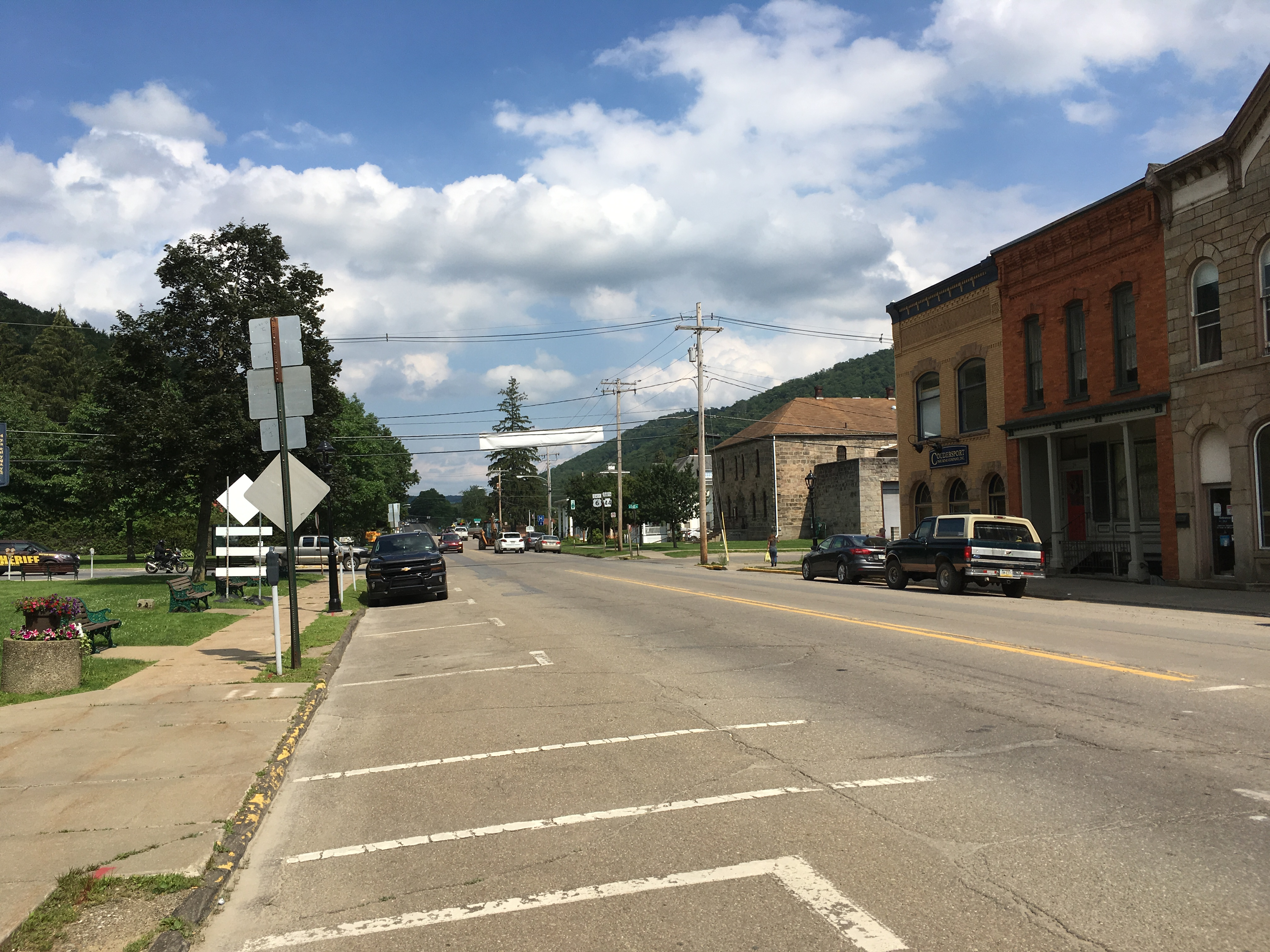 Eastbound U.S. Route 6/southbound Pennsylvania Route 44 (2nd Street) past the west end of their concurrency at Main Street in Coudersport.